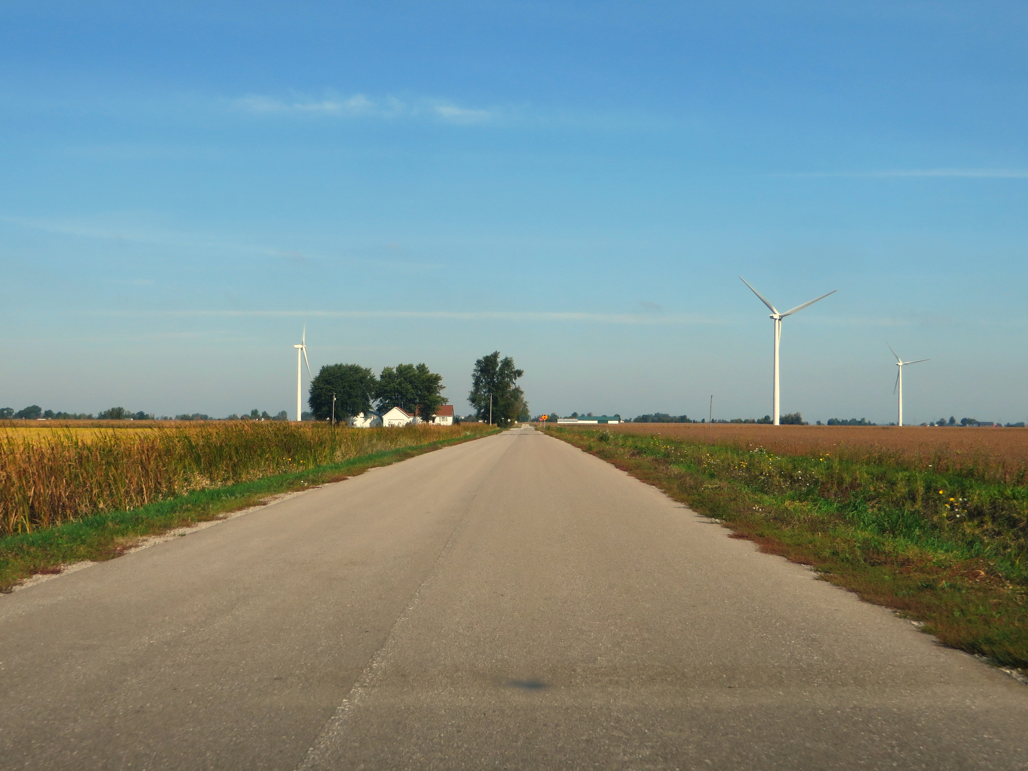 Blumfield Township is a civil township of Saginaw County in the U.S. state of Michigan. As of the 2000 census, the township population was 2,014. The 2009 census estimate places the population at 1,847. Blumfield Township was established in 1853. About 1880 it was the site of one sawmill and several farms. At that point it had been primarily settled by immigrants from Germany. Most of these immigrants were people who had favored the 1848 reforms and left in the wake of their suppression.